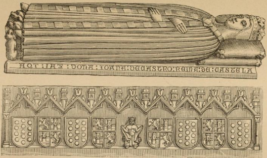 Image of the tomb of the queen Xoana de Castro in the Royal Pantheon of Compostela Cathedral.